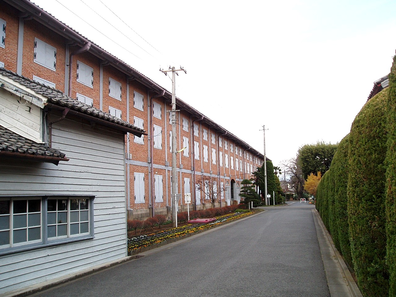 The East Cocoon Warehouse at Tomioka Silk Mill, built in 1872.